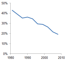 Extreme poverty as a proportion of world population. Source: The World Bank